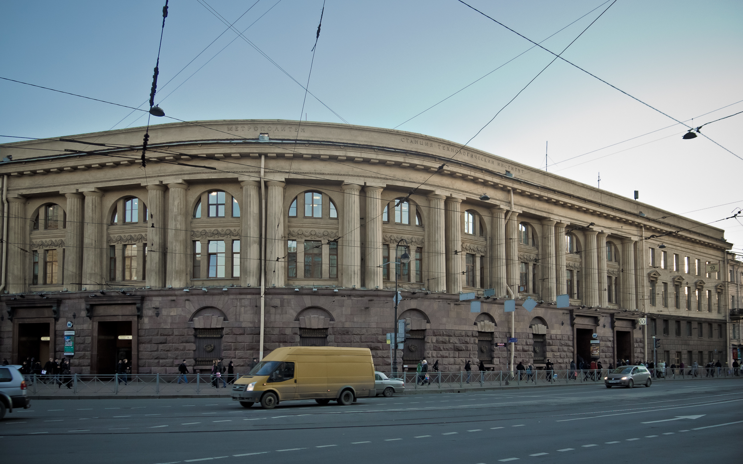 Administration of Saint Petersburg Subway, main building